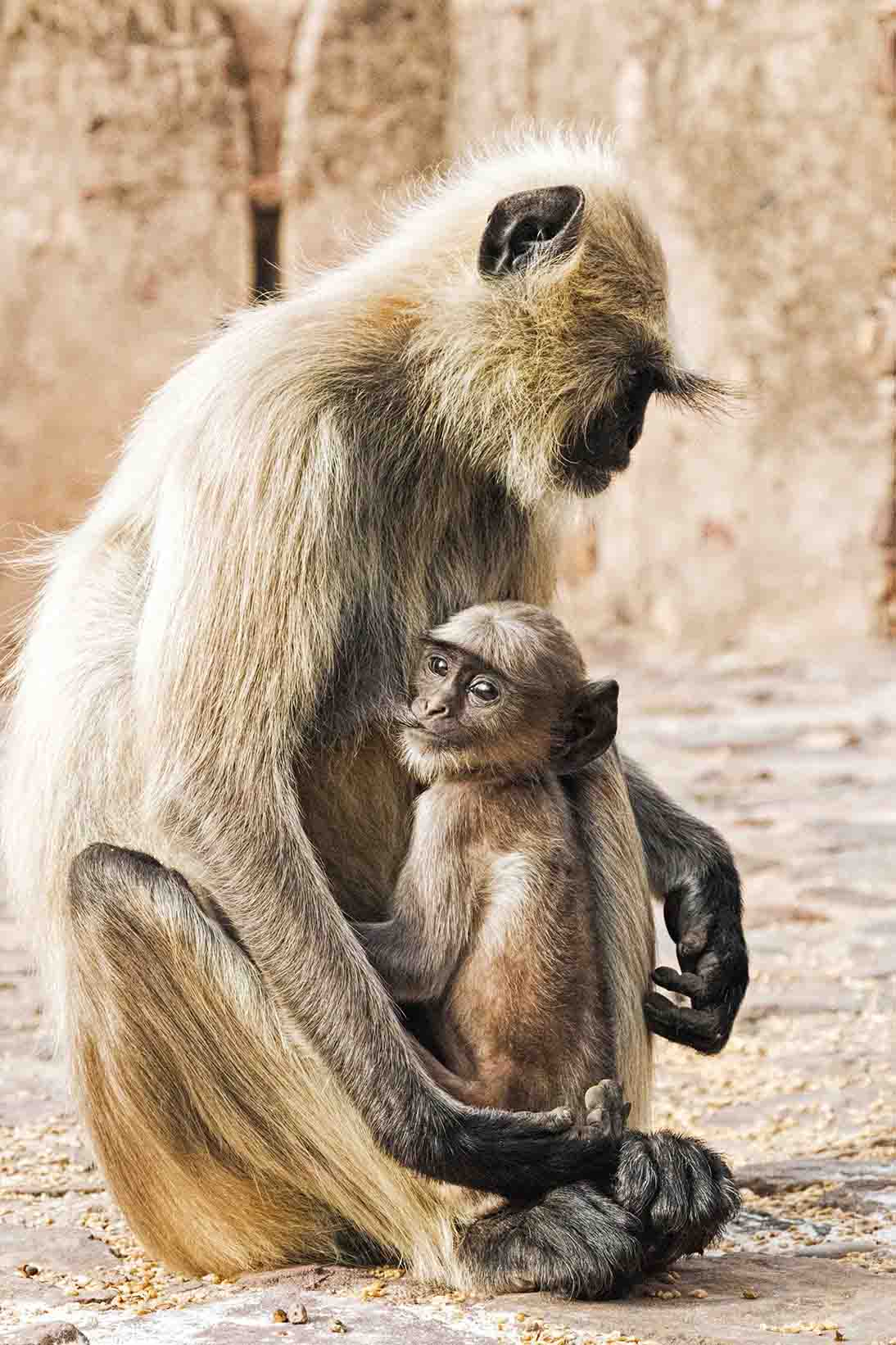 A juvenile gray langur feeds in the safety of its mother's arms.